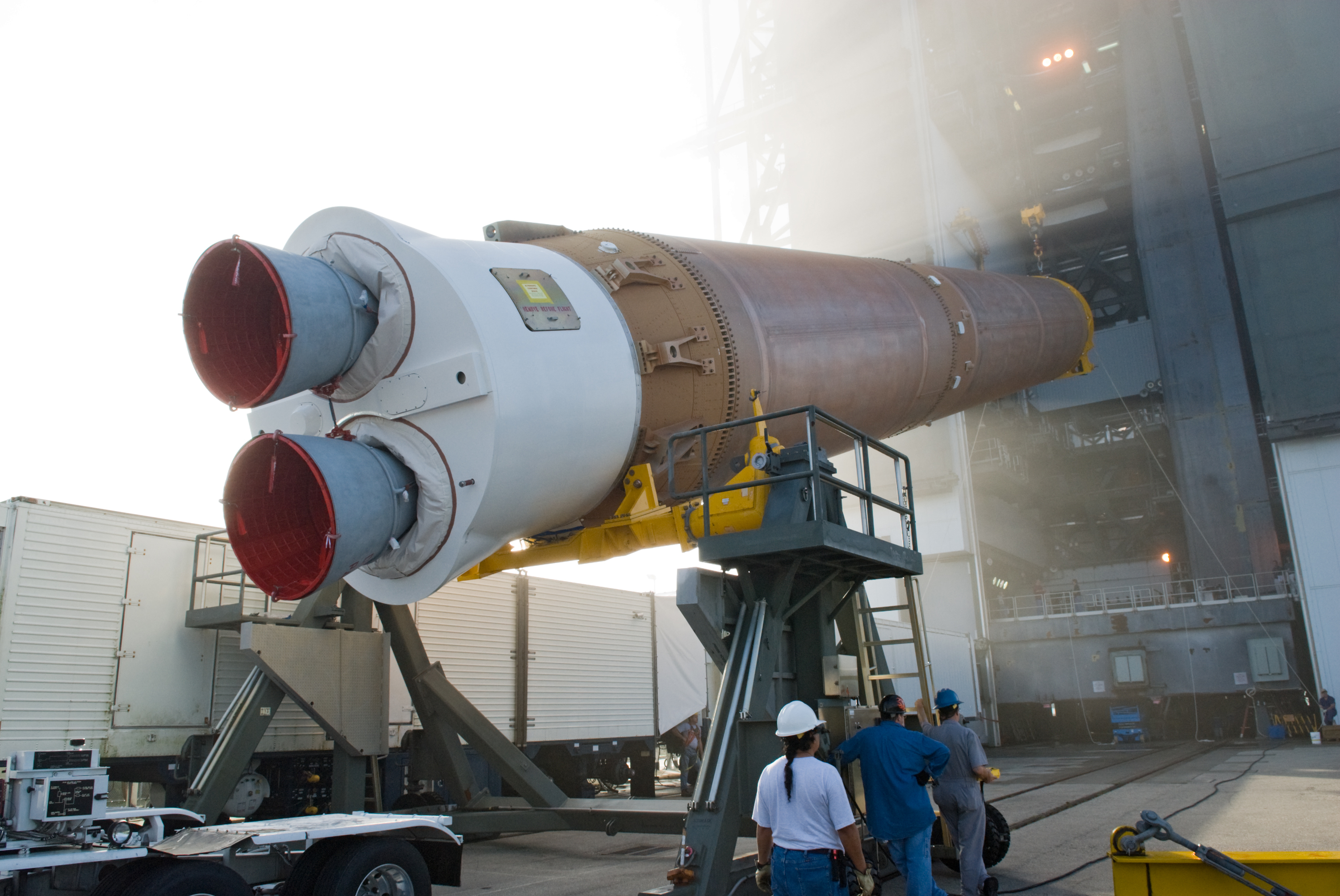 CAPE CANAVERAL, Fla. – Workers lift the Atlas V rocket scheduled to launch NASA's Solar Dynamics Observatory, or SDO, into a vertical position at Launch Complex 41 on Cape Canaveral Air Force Station in Florida. SDO is the first space weather research network mission in NASA's Living With a Star Program. The spacecraft's long-term measurements will give solar scientists in-depth information about changes in the sun's magnetic field and insight into how they affect Earth. Liftoff on the United Launch Alliance Atlas V is scheduled for Feb. 3, 2010. For information on SDO, visit Photo credit: NASA/Glenn Benson